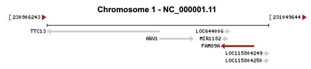 Gene Neighborhood of FAM89A